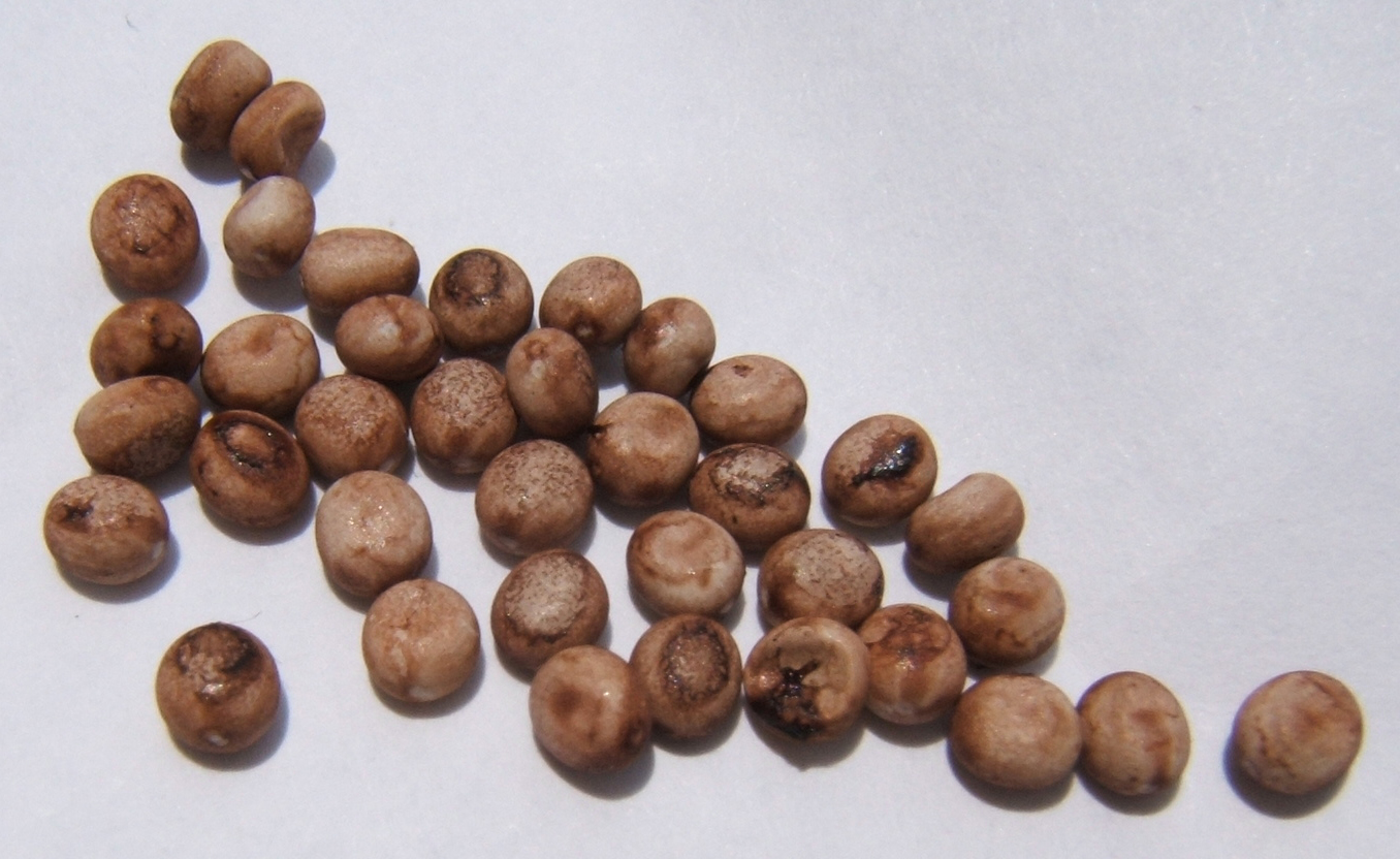 Antheraea pernyi ova one day prior to hatching. Taken by Shawn Hanrahan.